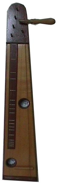 Hummel with tuning wrench.